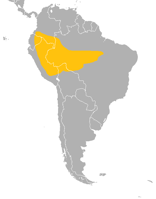 Distribution Atelocynus microtis.